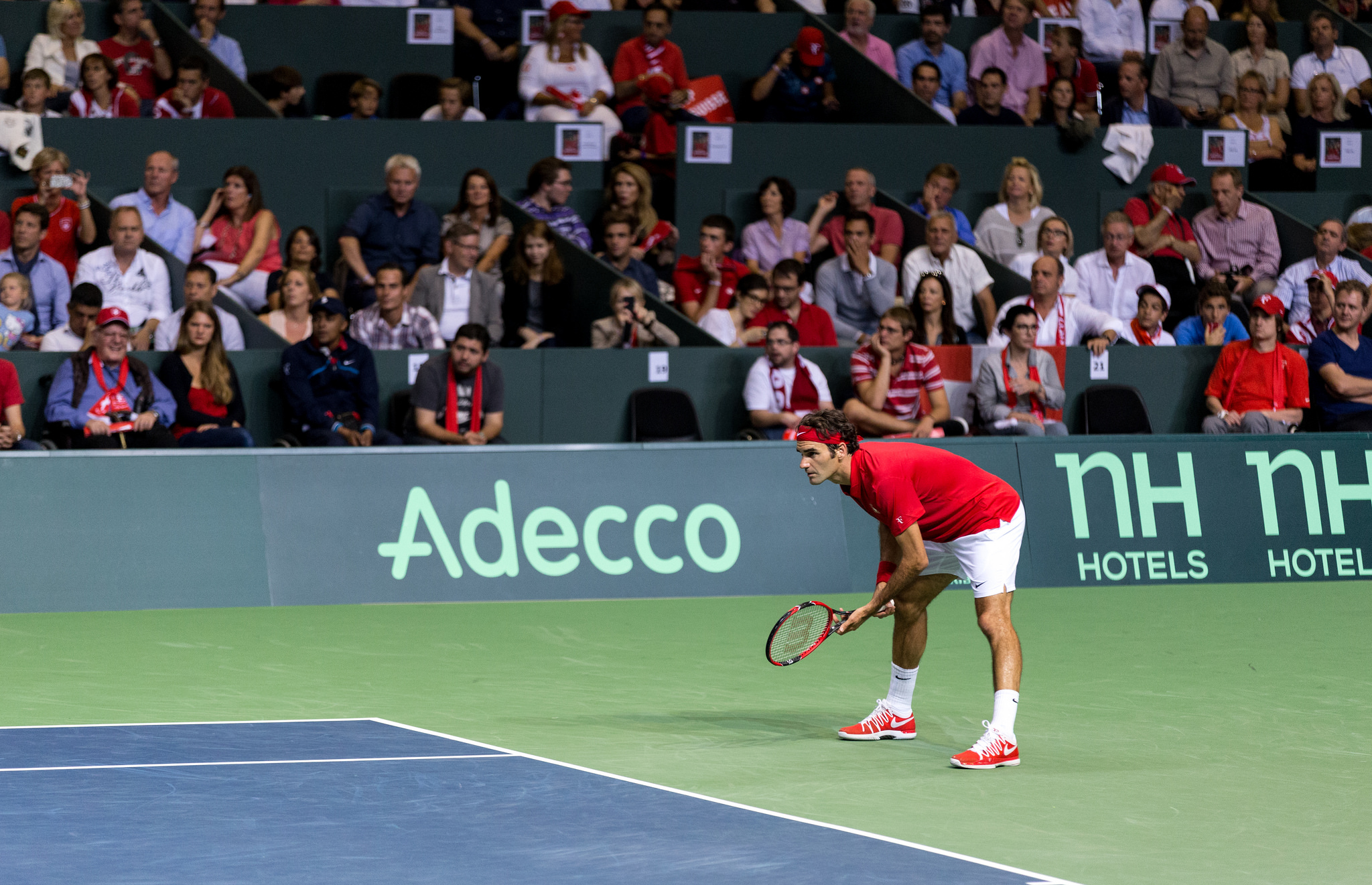 Roger Federer Davis Cup vs. Fabio Fognini (Italy)